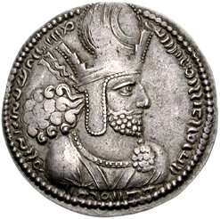 Coin of Shapur I, the second shah (king) of the Sasanian Empire.